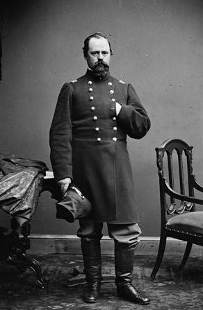 Title: Theodore B. Gates 80th N.Y. Inf. Physical description: 1 negative